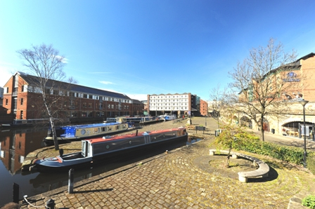 Victoria Quays, Sheffield Canal Basin